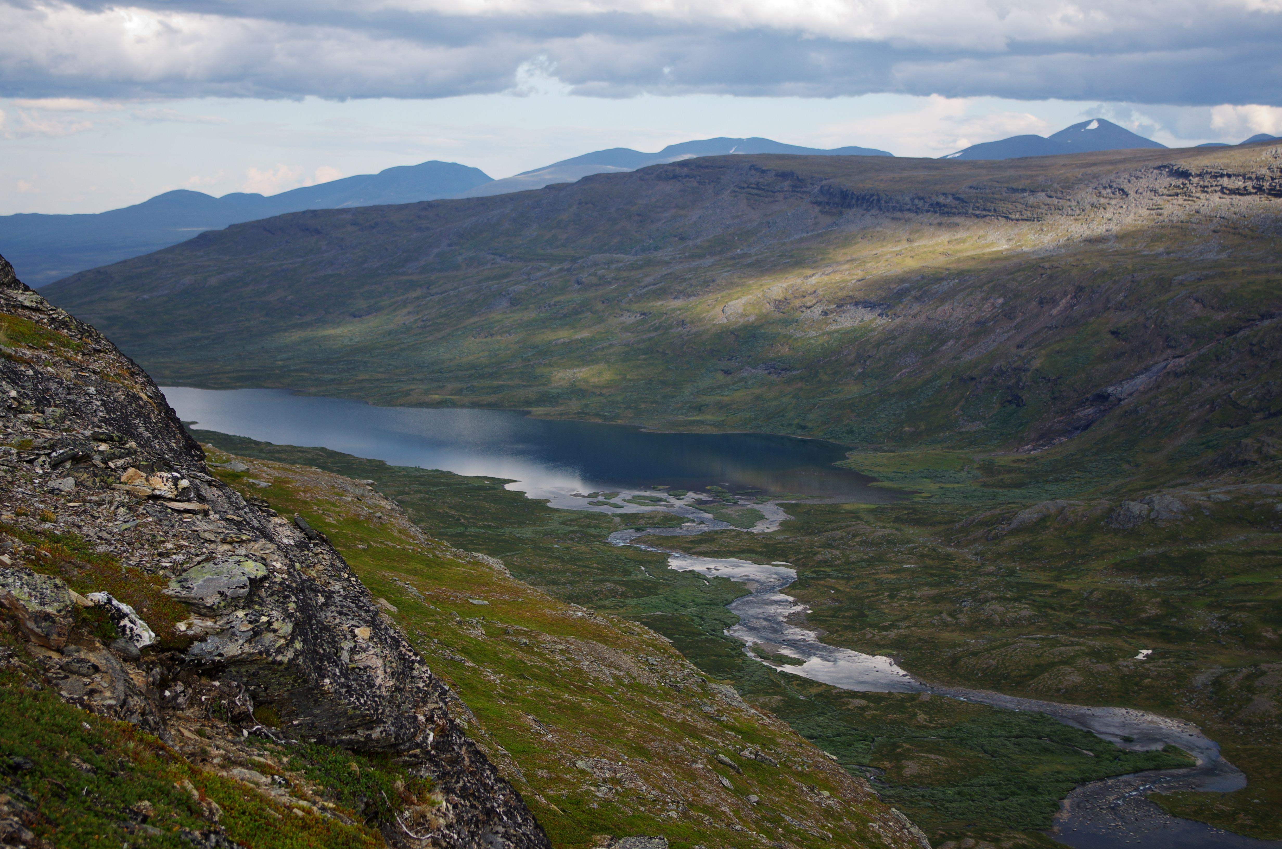 Vuolemus Kårsavaggejaure (Vuolimus Gorsajávri): Lake in Lappland, Sweden.